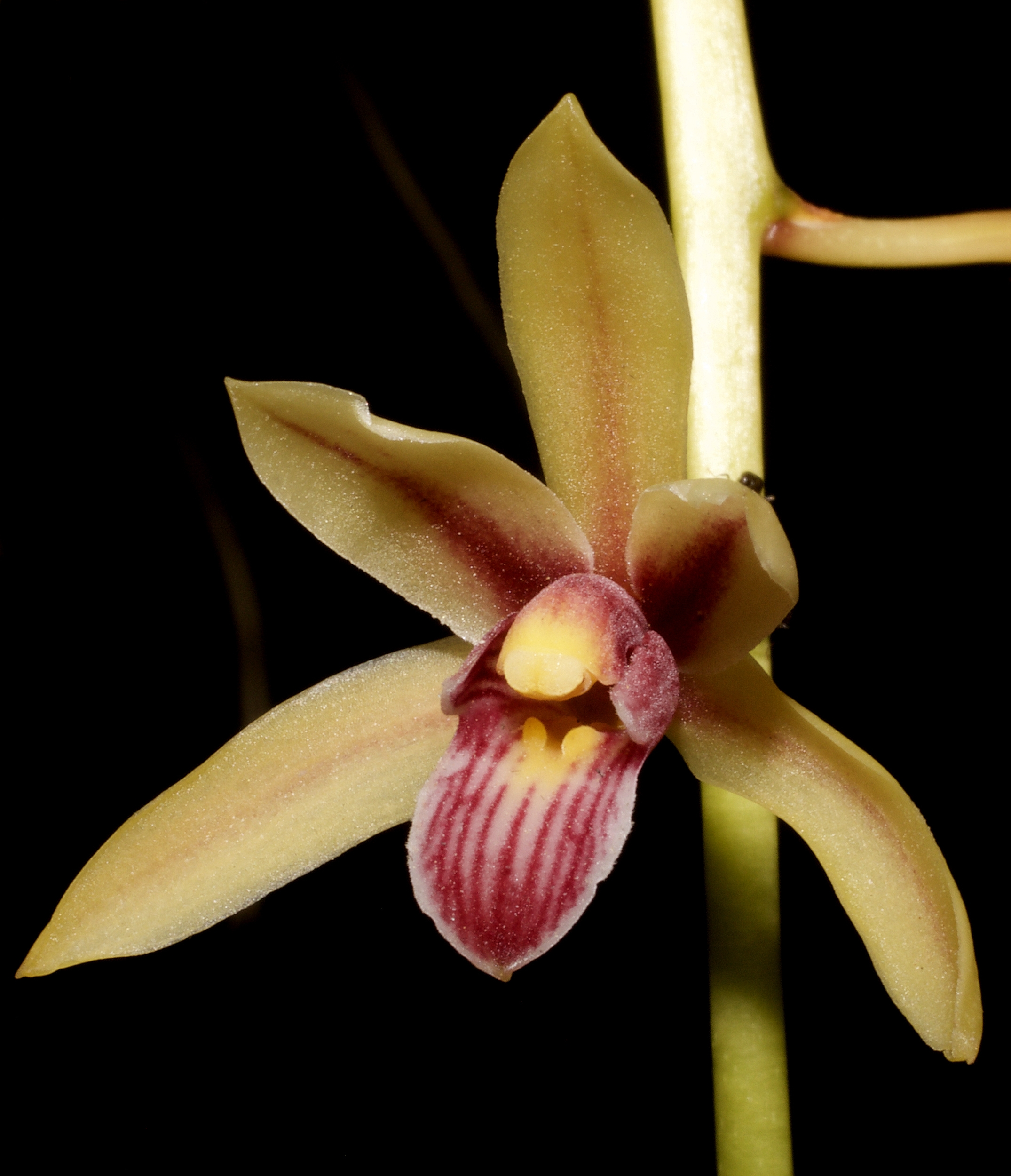 Photo taken in Meghalaya, India